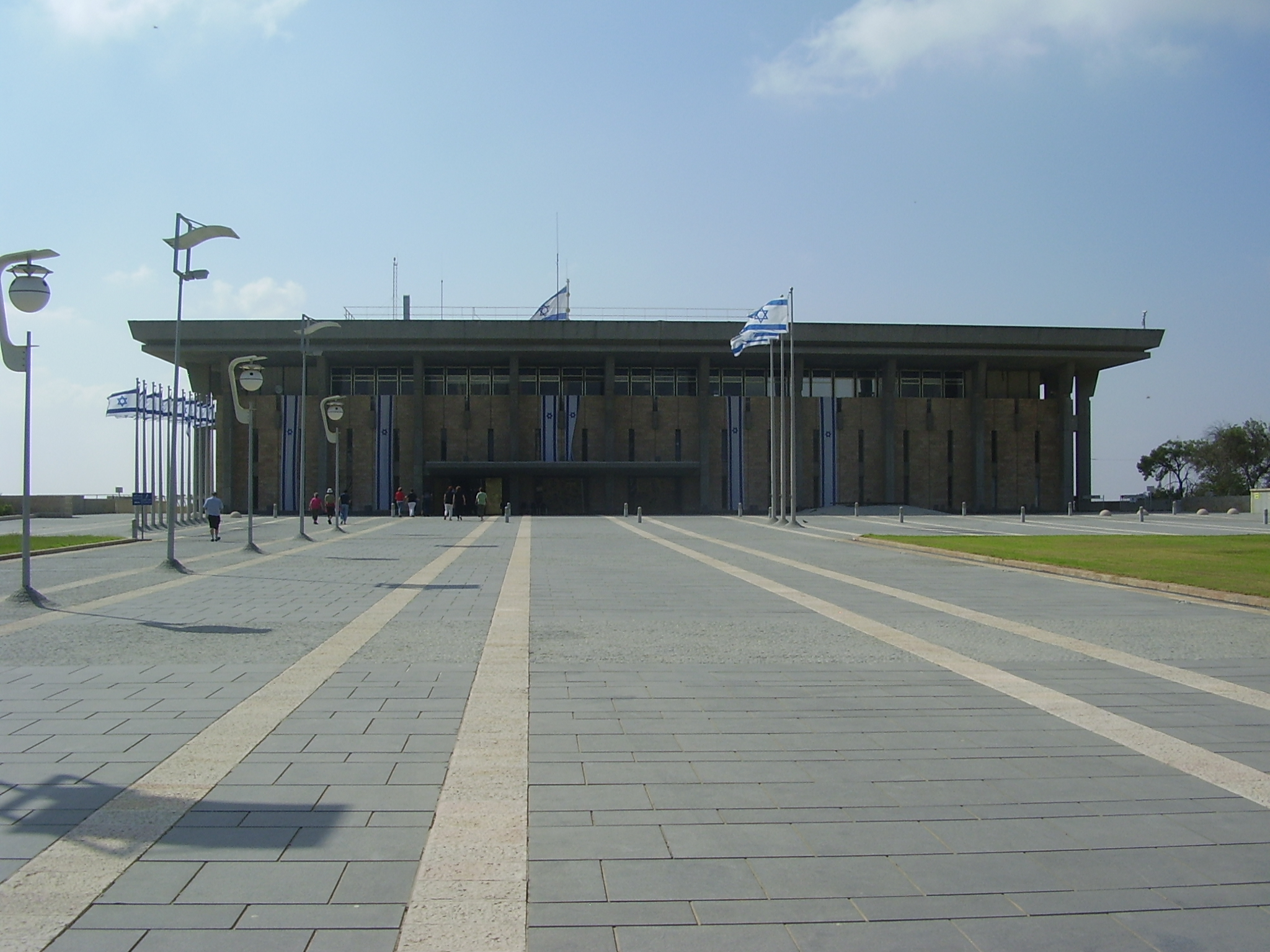 Knesset building in Jerusalem